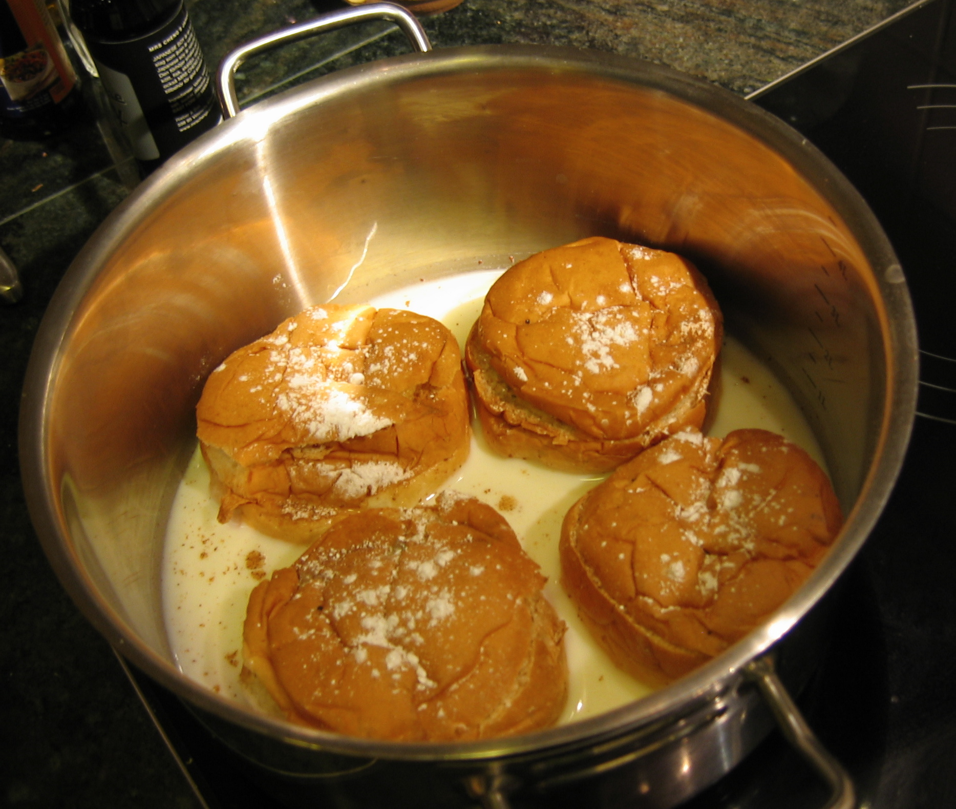 A Swedish semla, prepared in the old-fashioned way with warm milk (a so called "hetvägg").